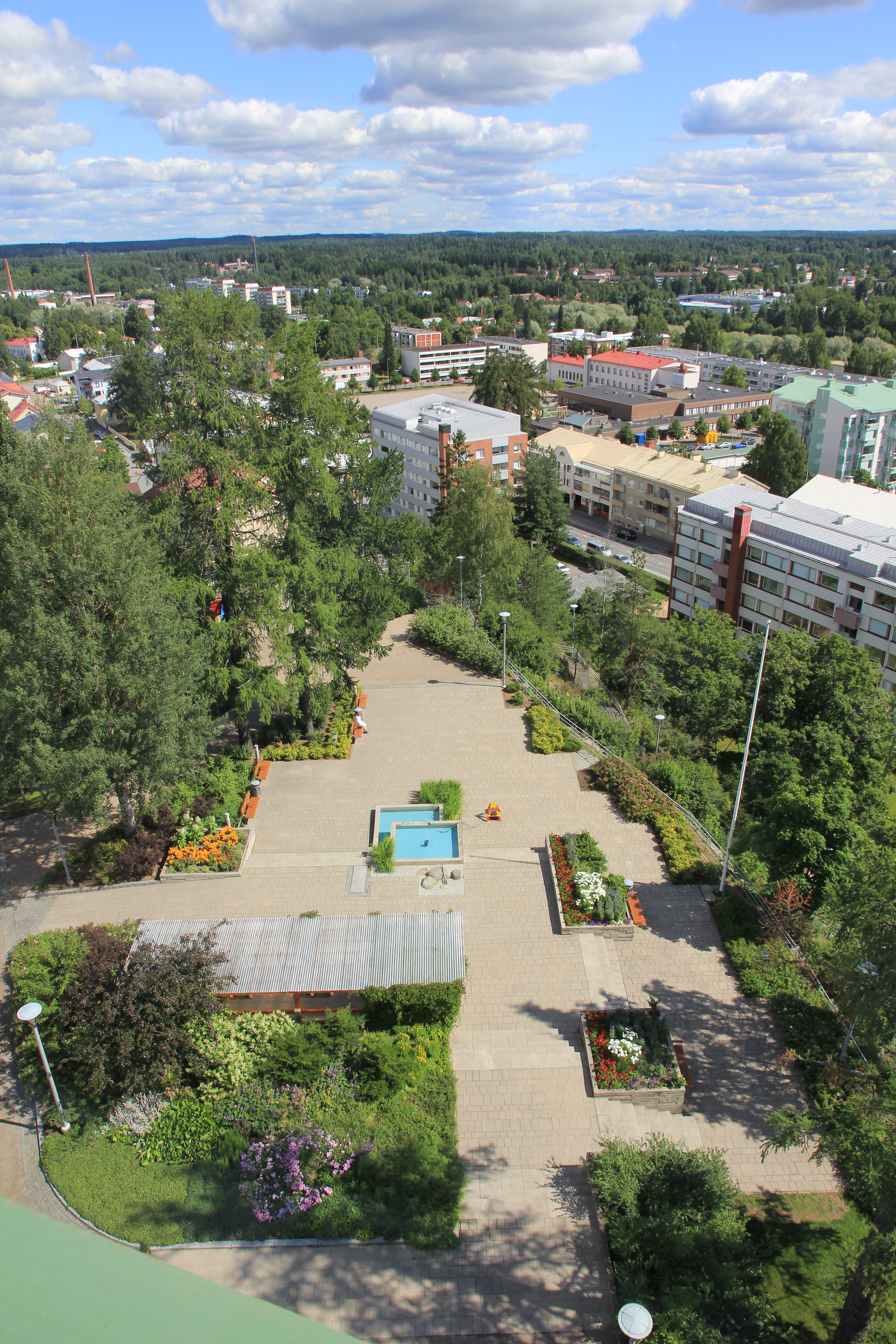 Naisvuori hill from Naisvuori water tower.